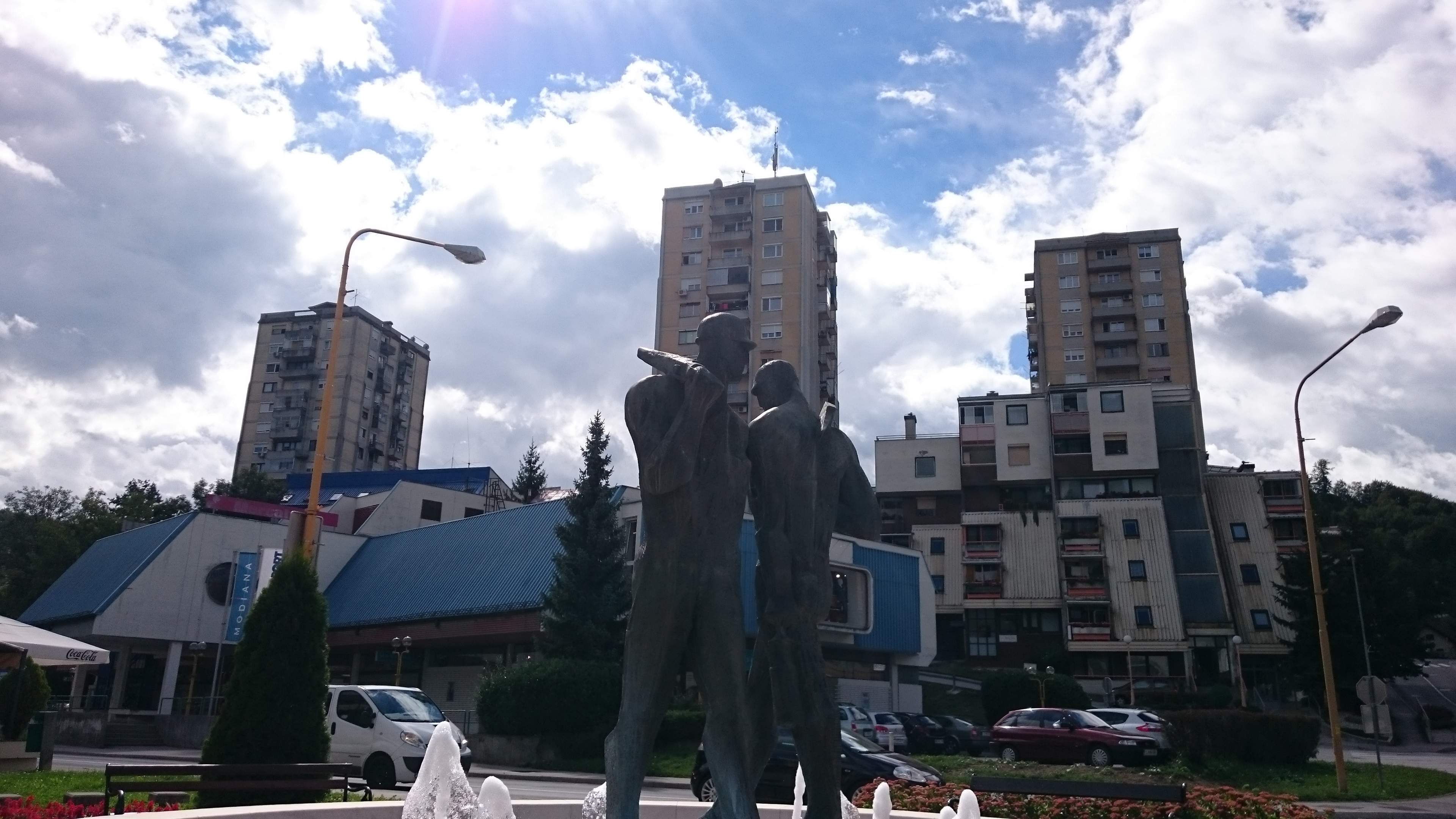 Monument "Izmena v Rudniku" (shift in the mine) by Stojan Batič in central hrastnik